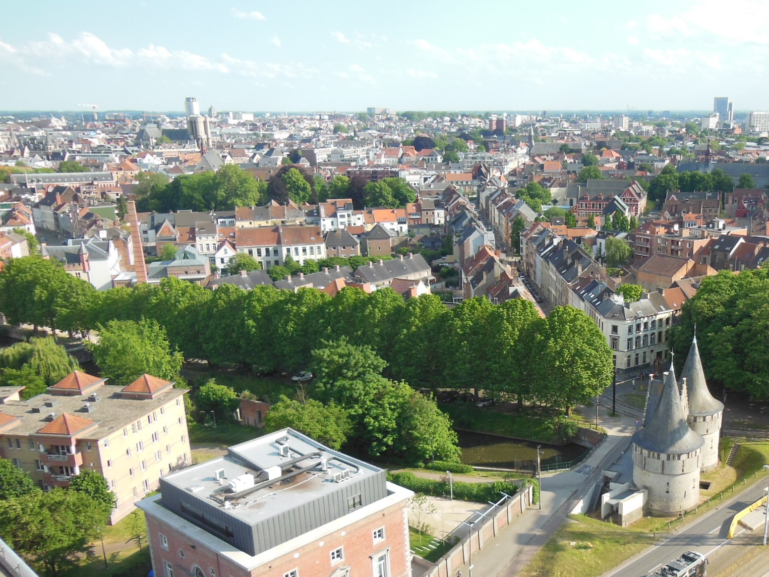 Panorama van Gent met Het Rabot en De Lieve